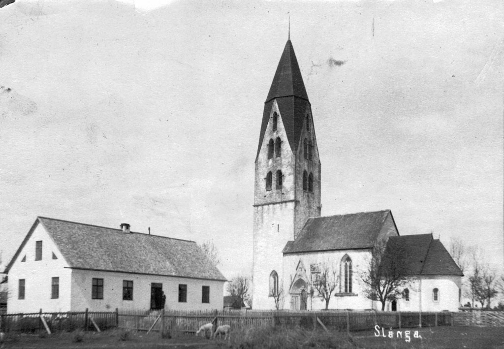 Stånga Church, built in the 1200s and in the 1300s by master builder and stone mason "Egypticus". The photographer Olivia Wittberg (1844-1908) was from Gotland.